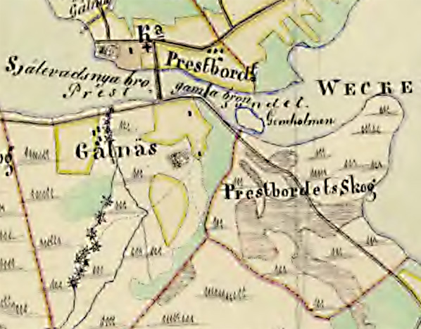 Part of a map of Själevad parish in northern Sweden, made in 1852 by Mårten Rikard Stiernström. In the center of the picture is Själevad's church and the parish grounds.